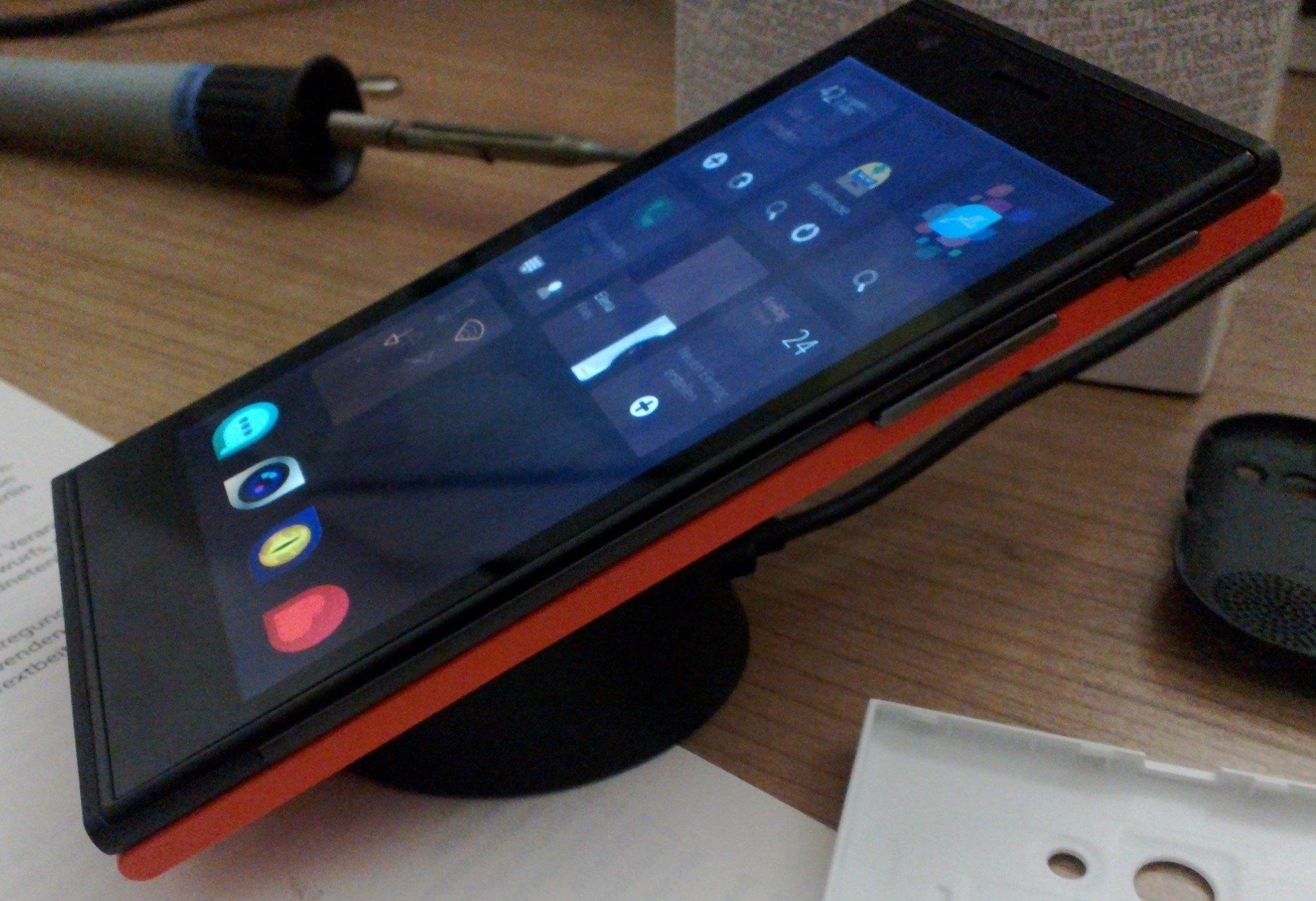 Loaging stable and fast enough. But I had to replace the original Jolla USB cable with the one from the N9, the original had had some problems transferring the power.